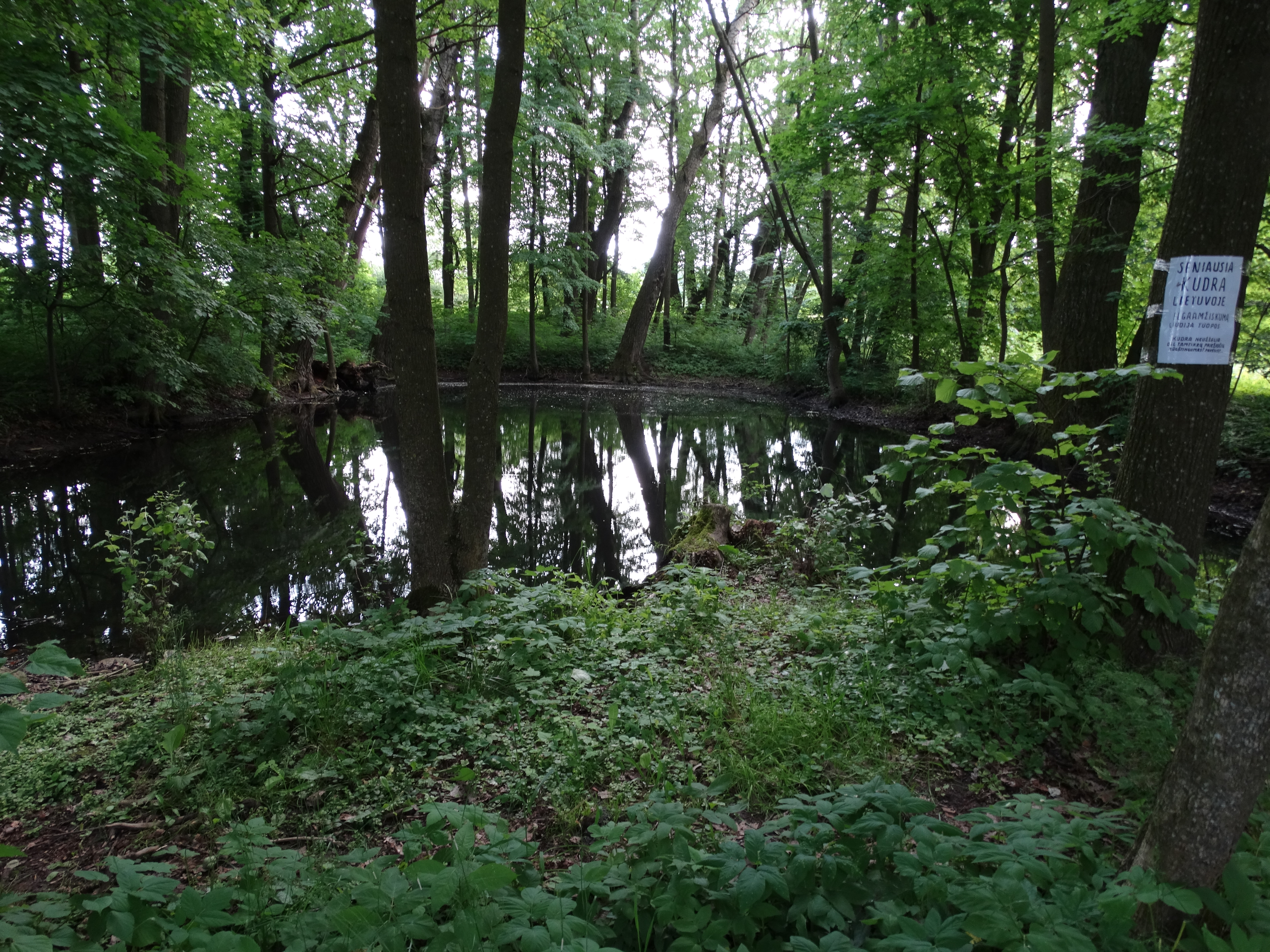 Park pond, Vainiai, Jonava District, Lithuania